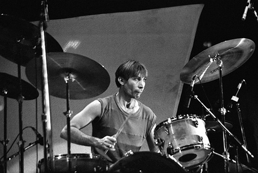 Charlie Watts from The Rolling Stones; Rolling Stones concert on December 11, 1981, Rupp Arena, Lexington Kentucky